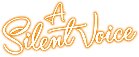 The logotype for the French edition of the manga.